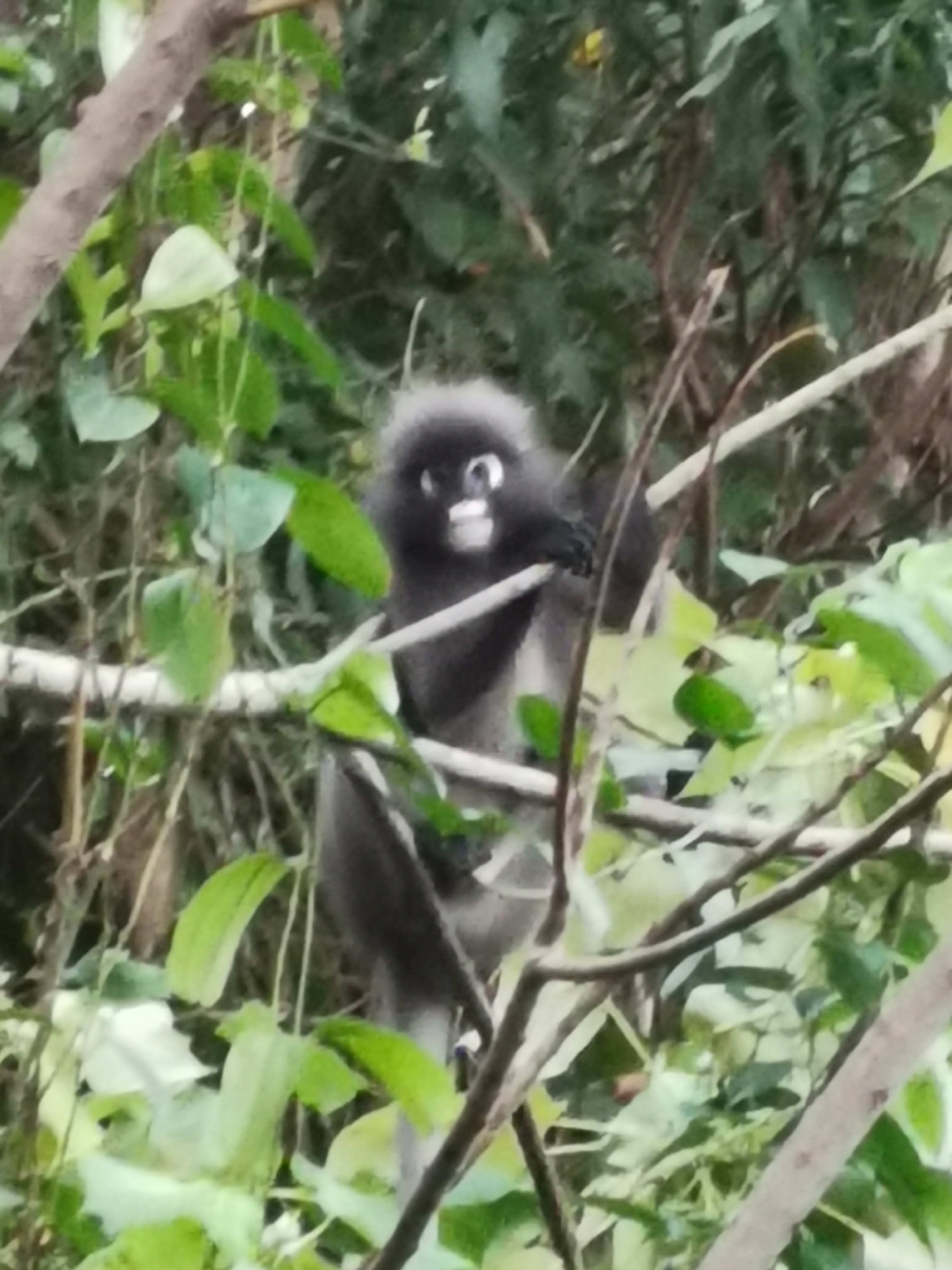 Lutung at Taman Rakan, near Kajang. Lutung still make this urban area as their habitat.